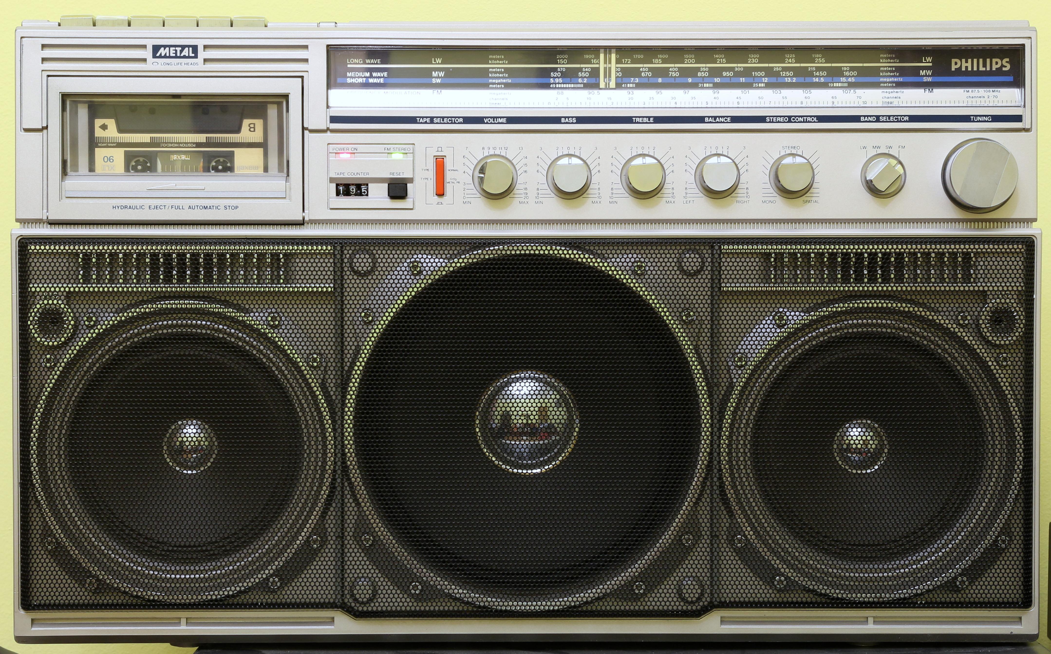 The Philips D8444 - golden age of cassette boomboxes. Despite menacing appearance, combined audio output is only 2+3+2 Watt (if you can stand the distortion...)